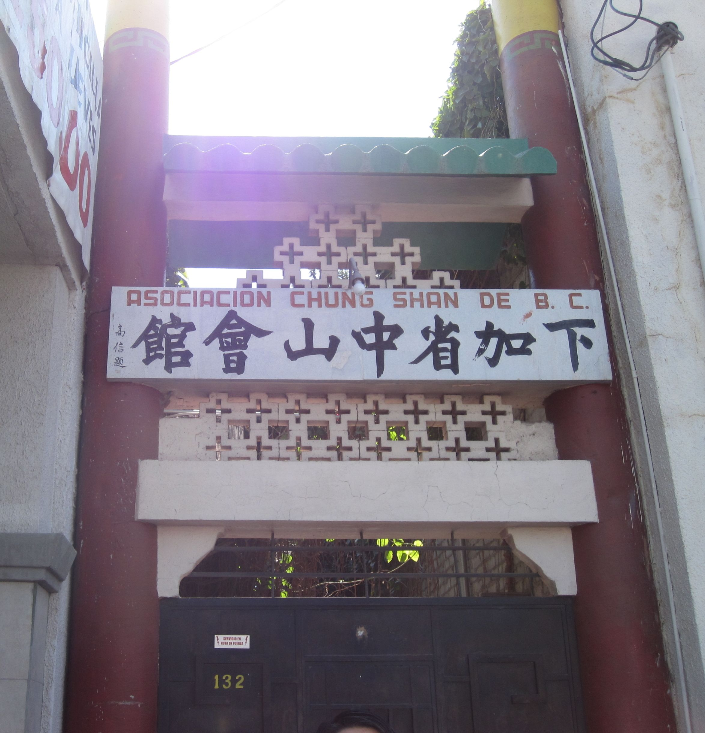 Associacion Chung Shan de BC en Mexicali 下加省中山會館